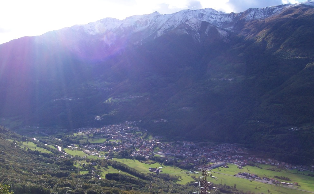 Malonno, Val Camonica